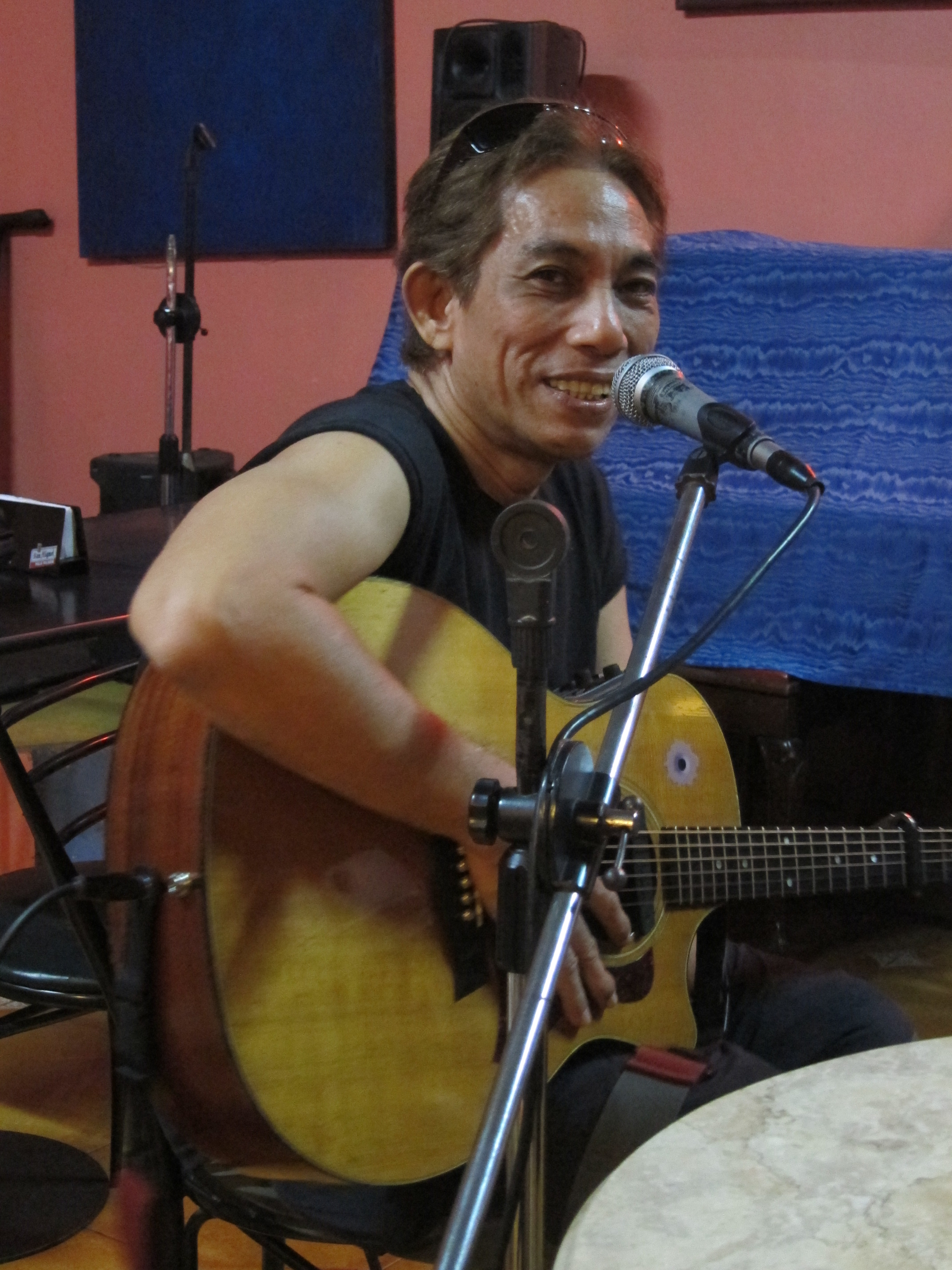 Joey Ayala performing at Conspiracy Bar in Quezon City, Metro Manila, Philippines. Tagalog: Si Joey Ayala, nanggigitara sa Conspiracy Bar sa Lungsod Quezon, Kalakhang Maynila, Pilipinas.